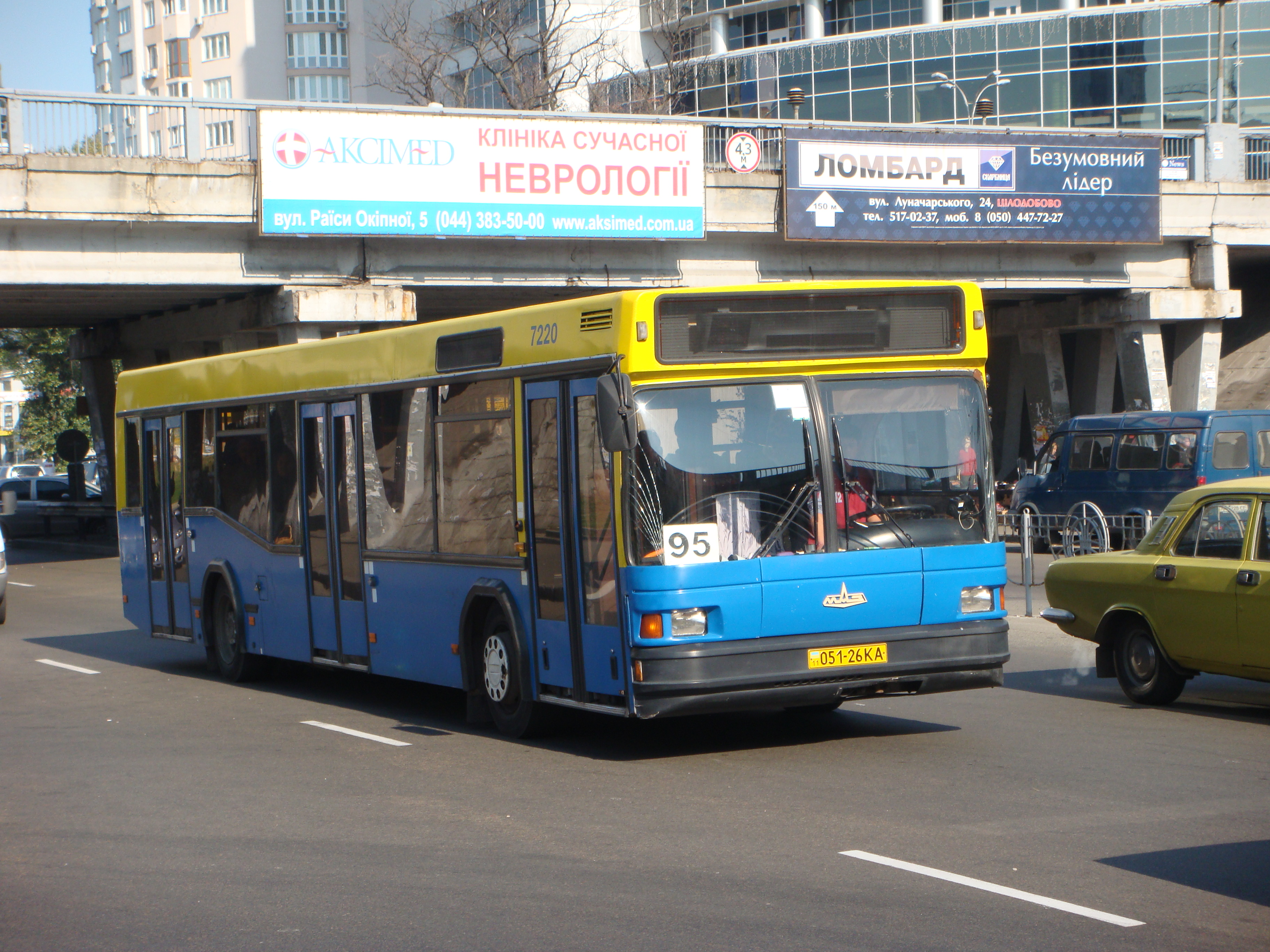 MAZ 103.061 bus (#7220) in Kiev, Ukraine. Built 2004. КП Київпастранс operator.